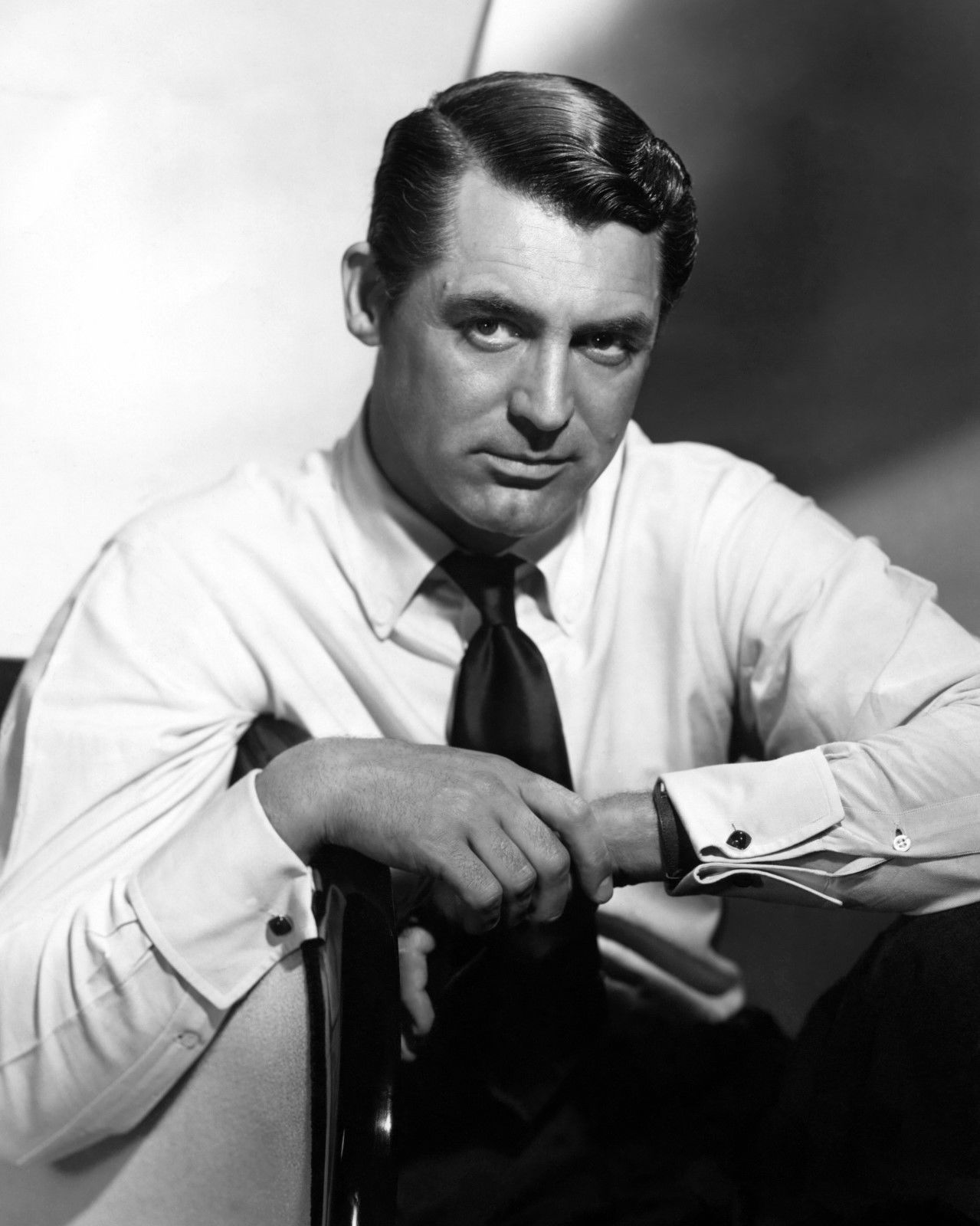 Cary Grant Publicity Photo, 1940s